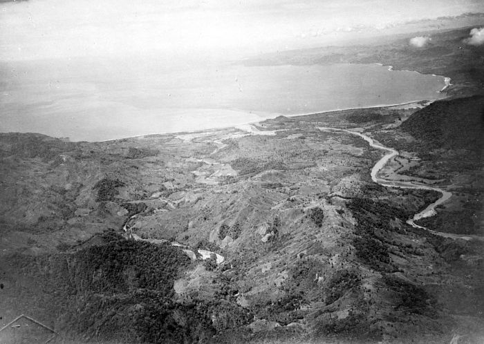 Air photo of the Wijnkoops Bay and the mouth of the Cimandiri river